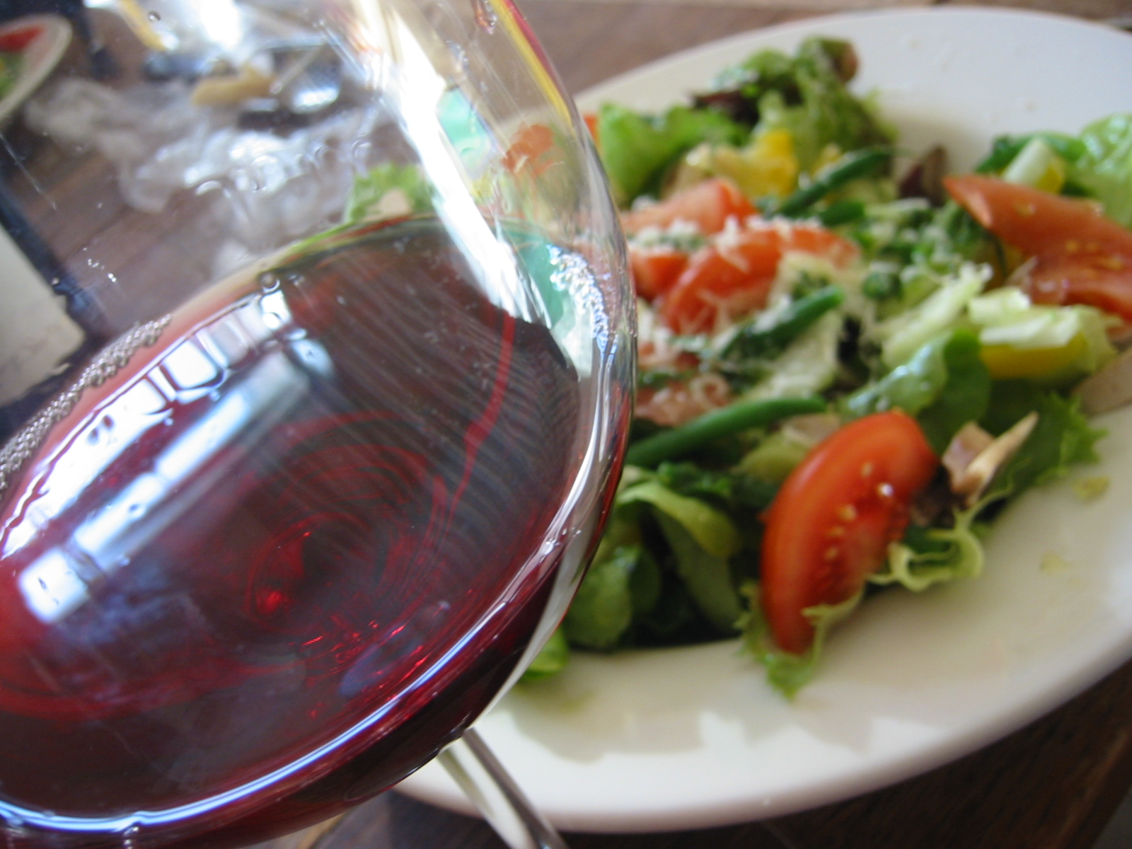 A glass of Beaujolais red wine with salad as background.Days of wine and salad